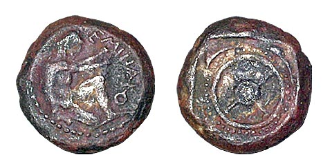 Olbian silver stater minted by Eminak (Εμινακος), approx. 5th century BCE[1]